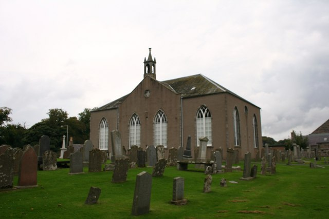 Kirkton of Skene Church South aspect of Skene parish church.